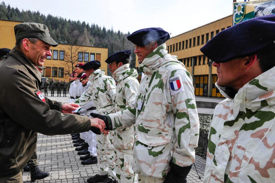 Tundra Camouflage - Chasseurs Alpines Arktis B102 Smock & C103 Trousers.